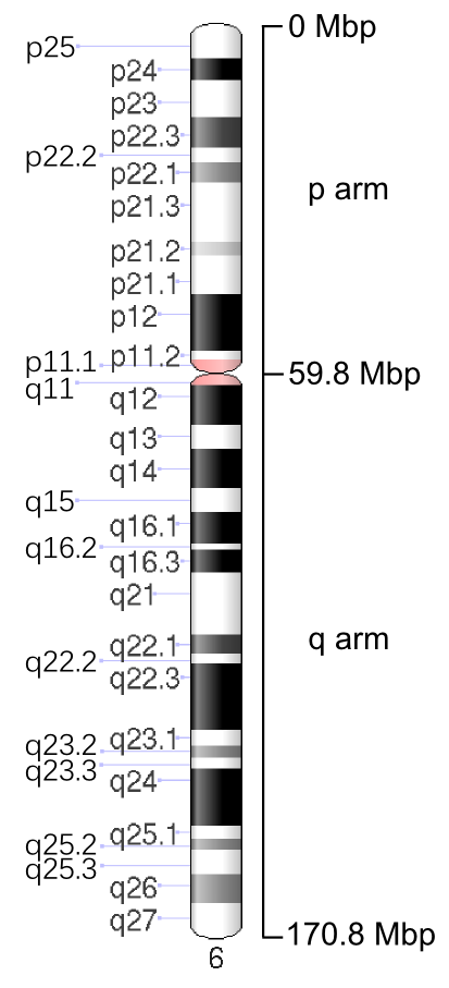 Ideogram of human chromosome 6. G-band, 550 bphs (bands per haploid set). Black and gray: Giemsa positive. Red: Centromere. Light blue: Variable region. Dark blue: Stalk. Mbp: Mega base pairs.